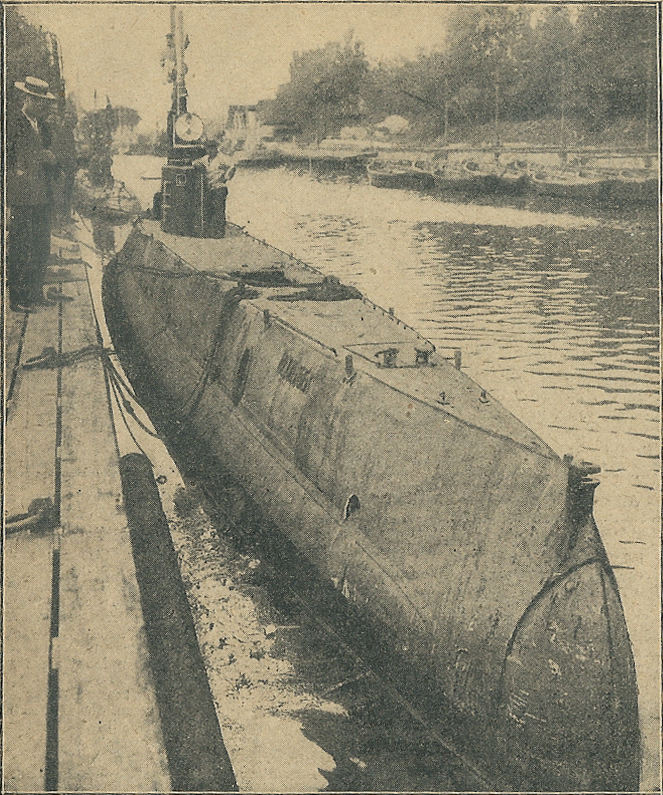 Danish submarine "Havmanden". During a patrol on 19th of October 1914 it was fired upon by an unknown foreign submarine. The Danish sub narrowly escaped being hit by two torpedoes.